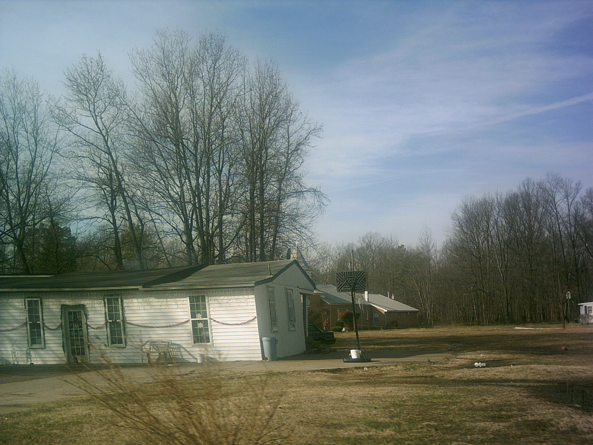 Image taken by me for Wikipedia